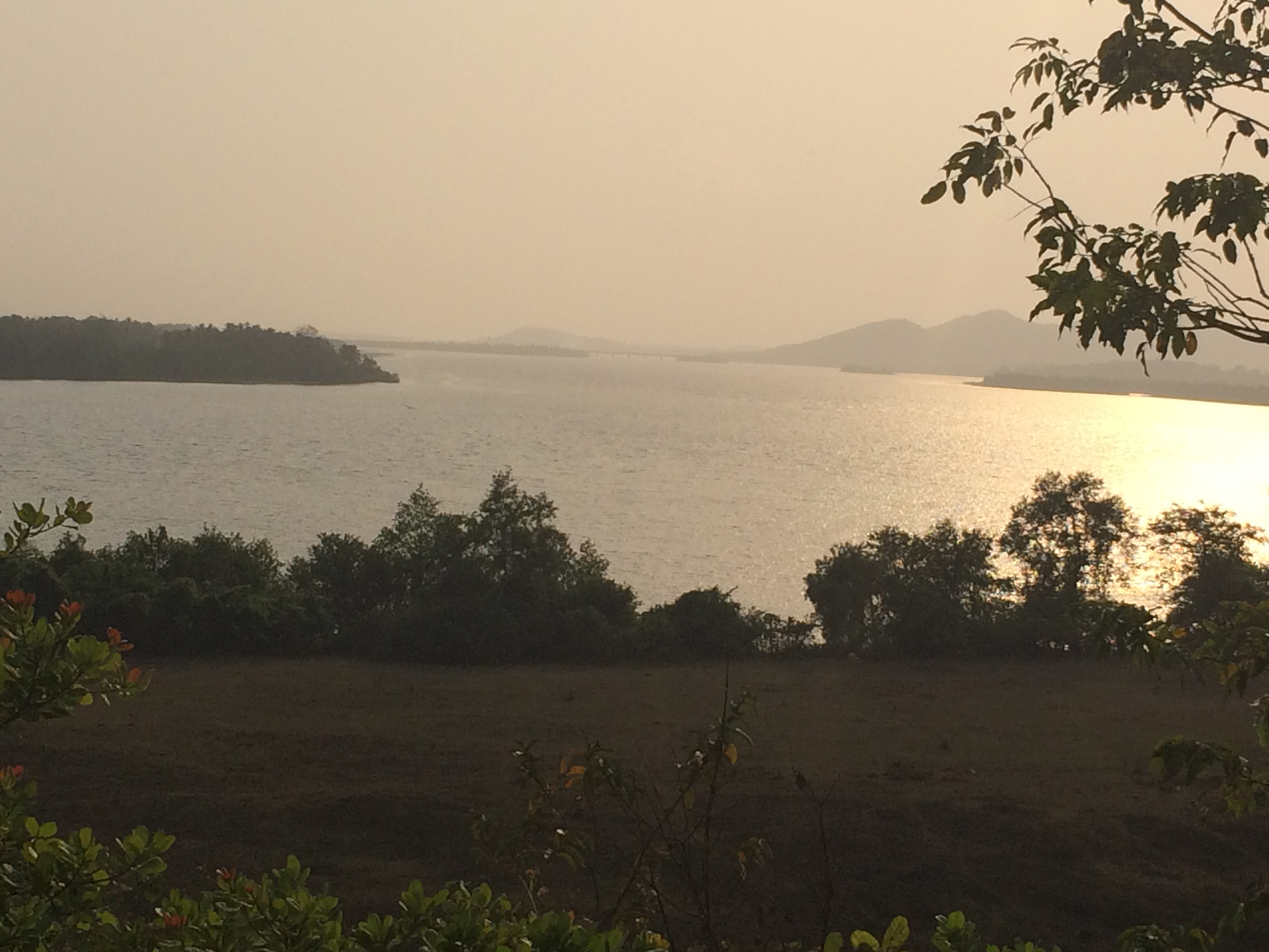 Kali River as seen from sunset view point Karwar